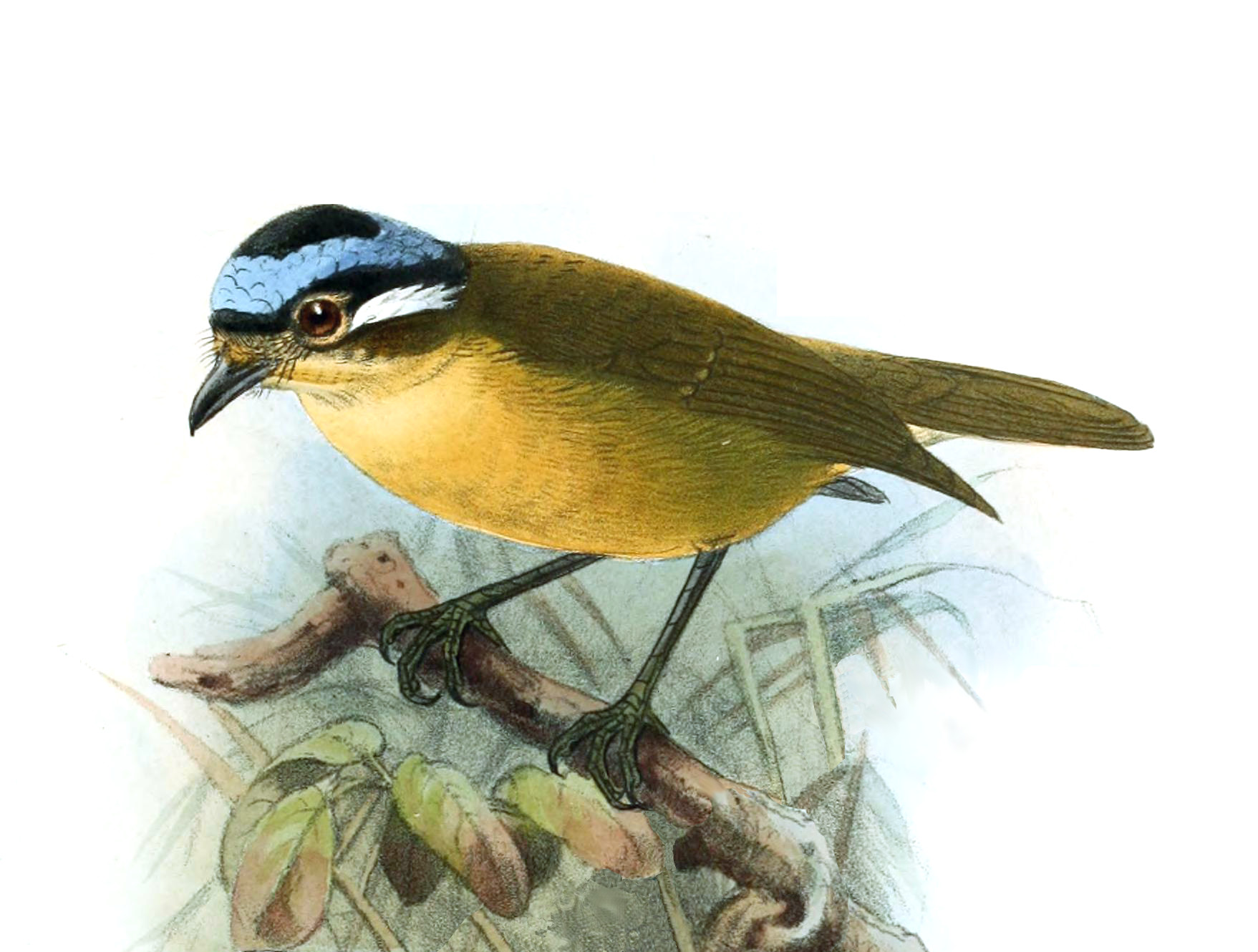 « Ifrita coronata » = Ifrita kowaldi (Blue-capped Ifrita)